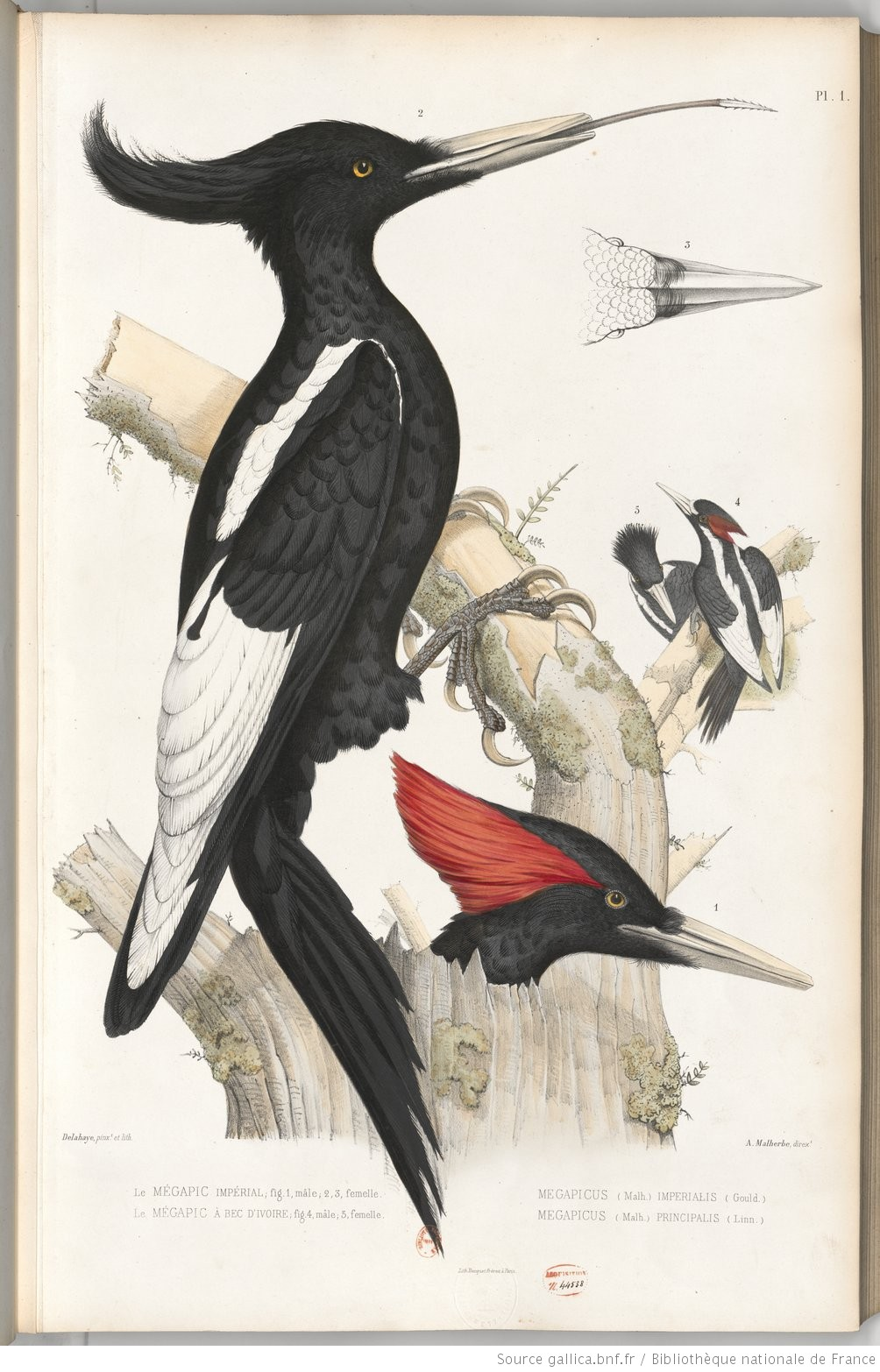 Lithography of Alfred Malherbe, hand colored, from Monographie des picidées - imperial megapic and ivory beak megapic